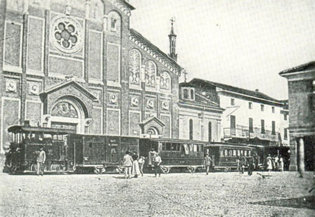 Gambolò, steam tramway and church